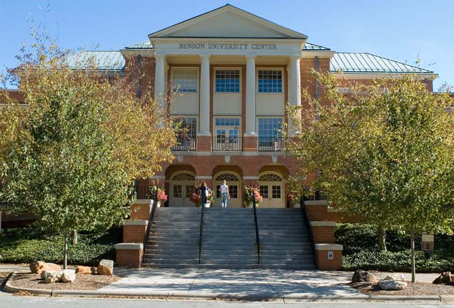 Picture of the Benson University Center.